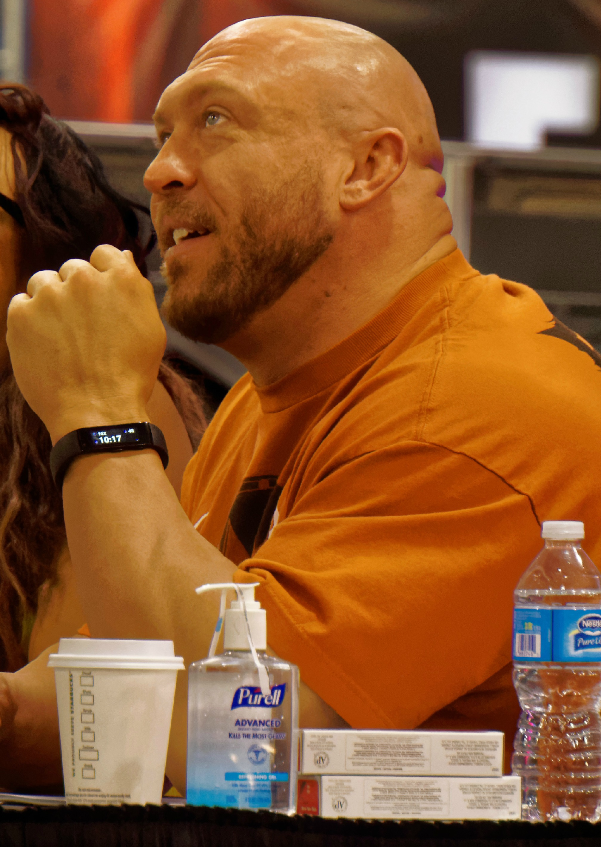 Ryback At WrestleMania Axxess 2015.